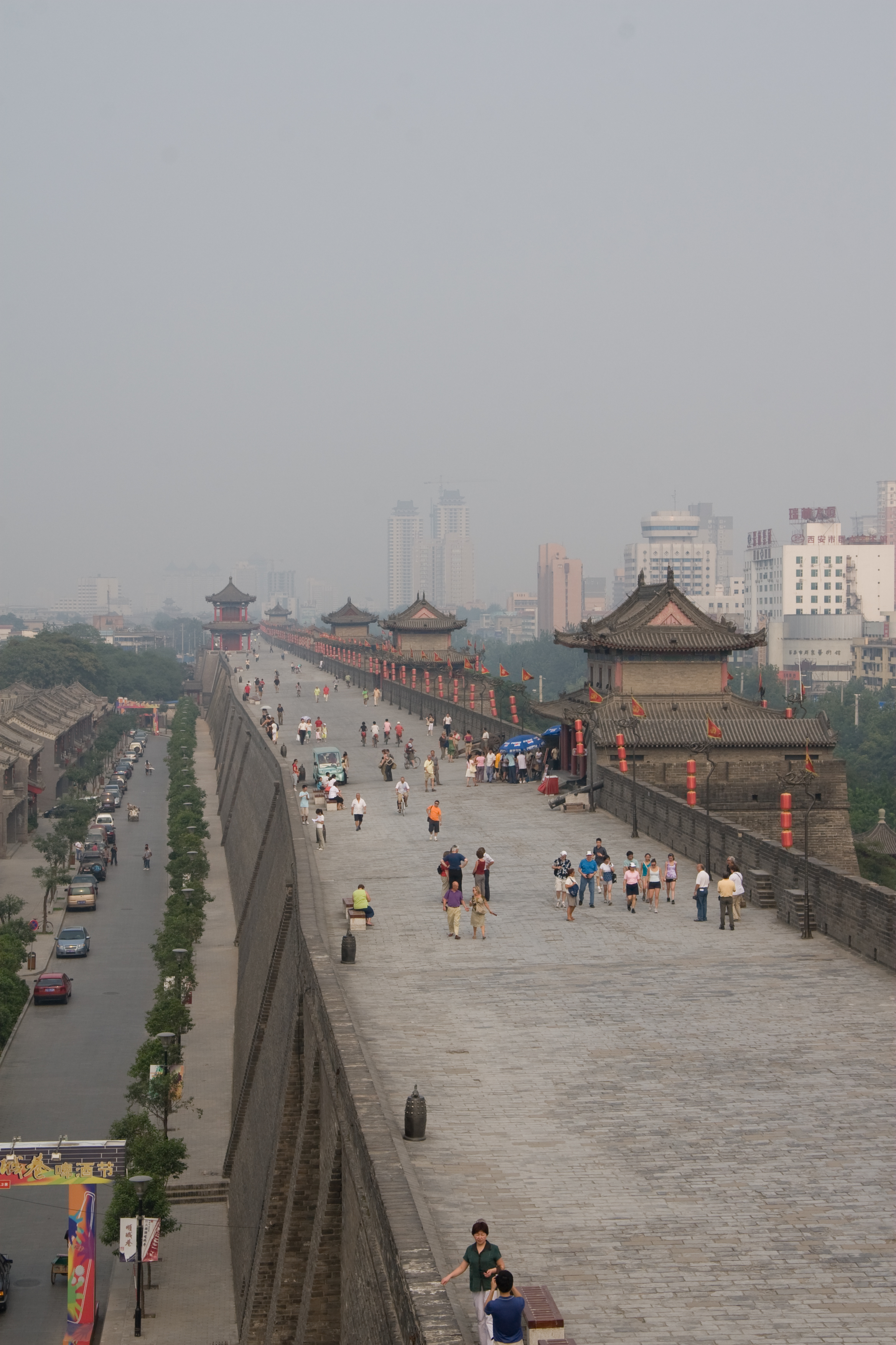 City Wall in Xi'an, China